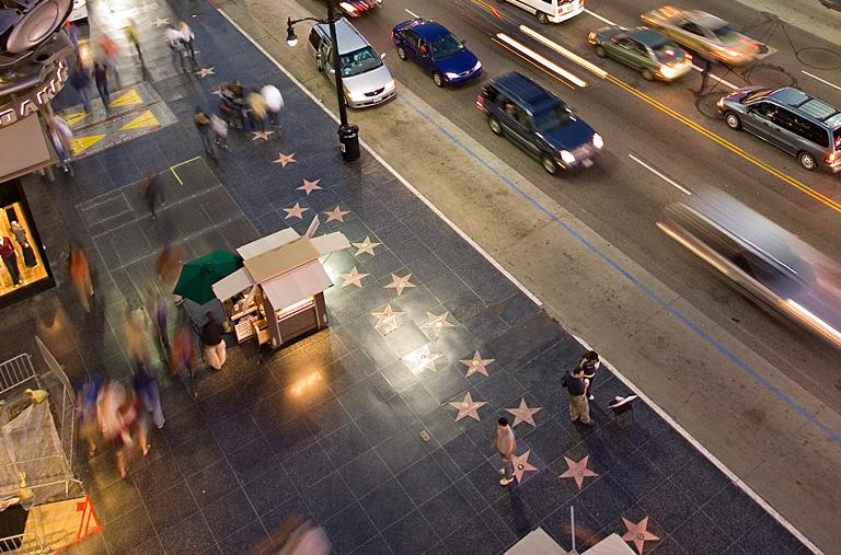 Walk of Fame - Hollywood Boulevard in front of the Kodak Theatre